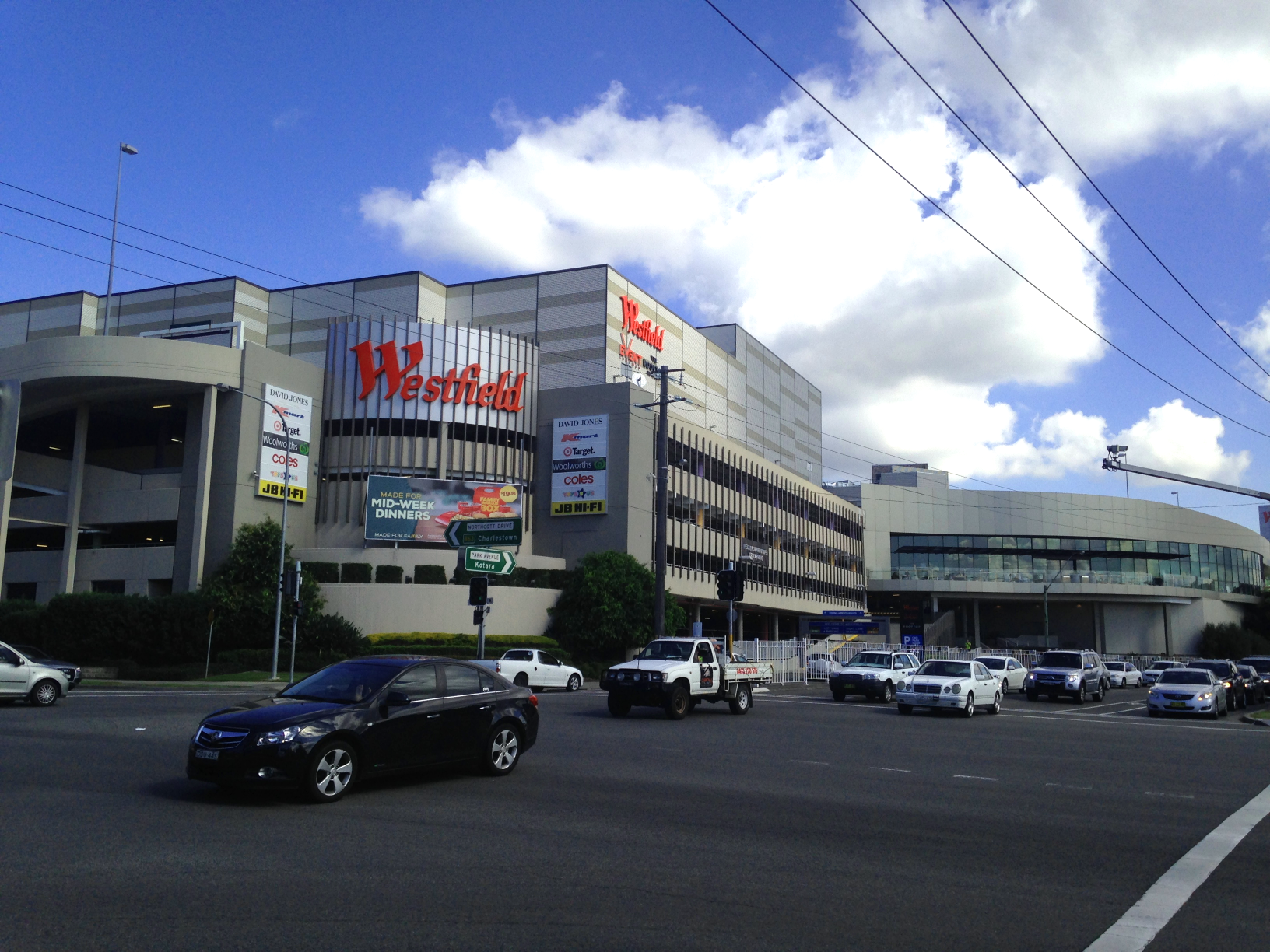 Westfield Kotara as seen from the corner of of Northcotte Drive and Park Avenue